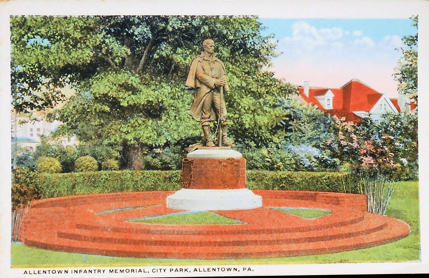 1920 - Allentown First Defenders Civil War Memorial in West Park A Civil War Memorial honoring the Allen Infantry, a company from Allentown also known as "First Defenders". The statue depicts Ignatz Gresser, who was later awarded the Congressional Medal of Honor for heroism in the battle of Antietam; he was the only Allentownian ever so honored. In April 1861, in response to the call from President Abraham Lincoln, Allentown sent a company of Pennsylvania militia to Washington, D.C. The Allen Infantry was one of the first to reach Washington. By their presence, they deterred the Confederacy from any plans they may have had to capture Washington, D.C. The memorial was designed by Samuel Addison Weishampel.